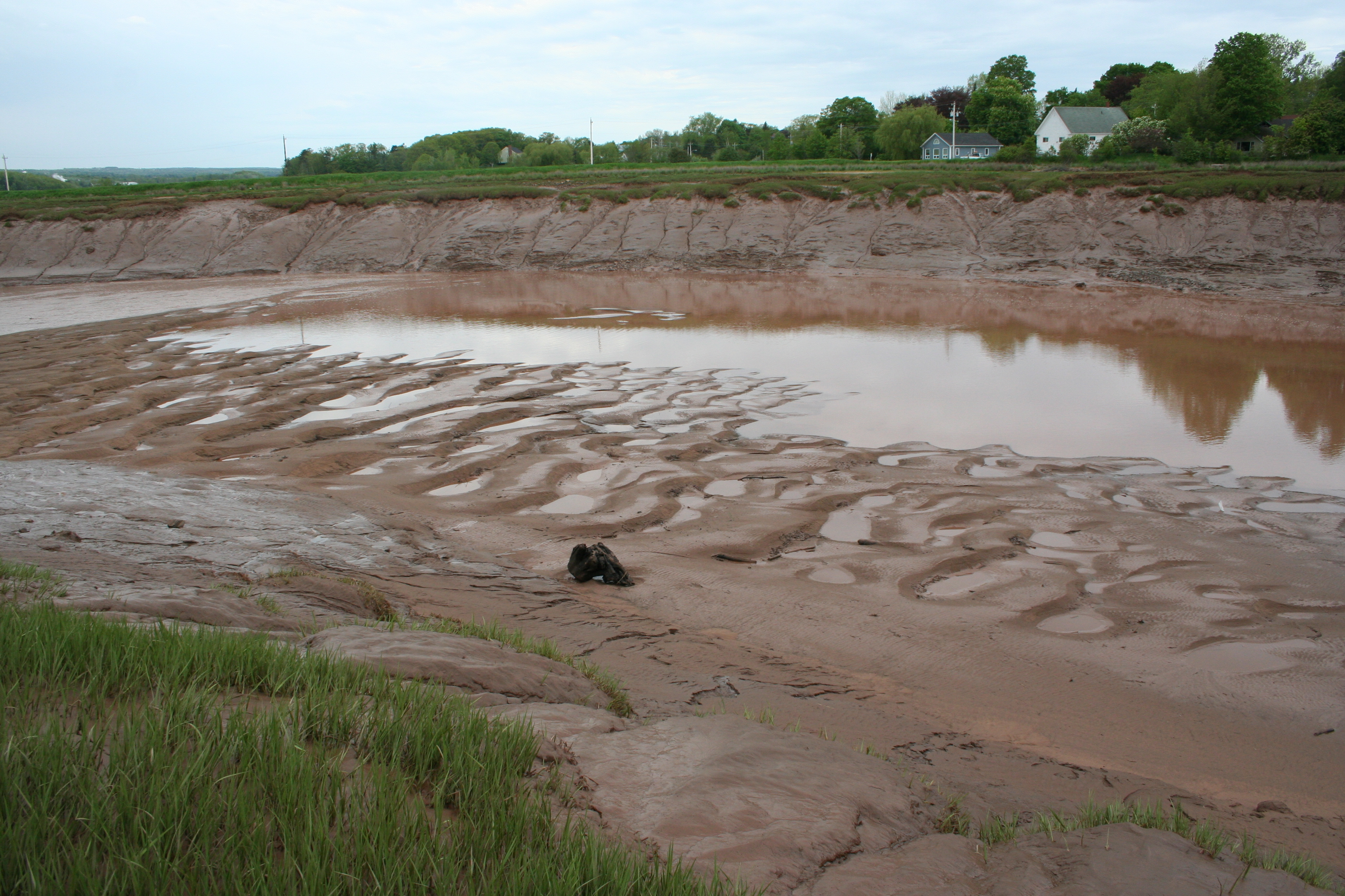 Sinuous-crested dunes exposed at low tide on a tributary to the Minas Basin (Bay of Fundy) near Wolfville, Nova Scotia